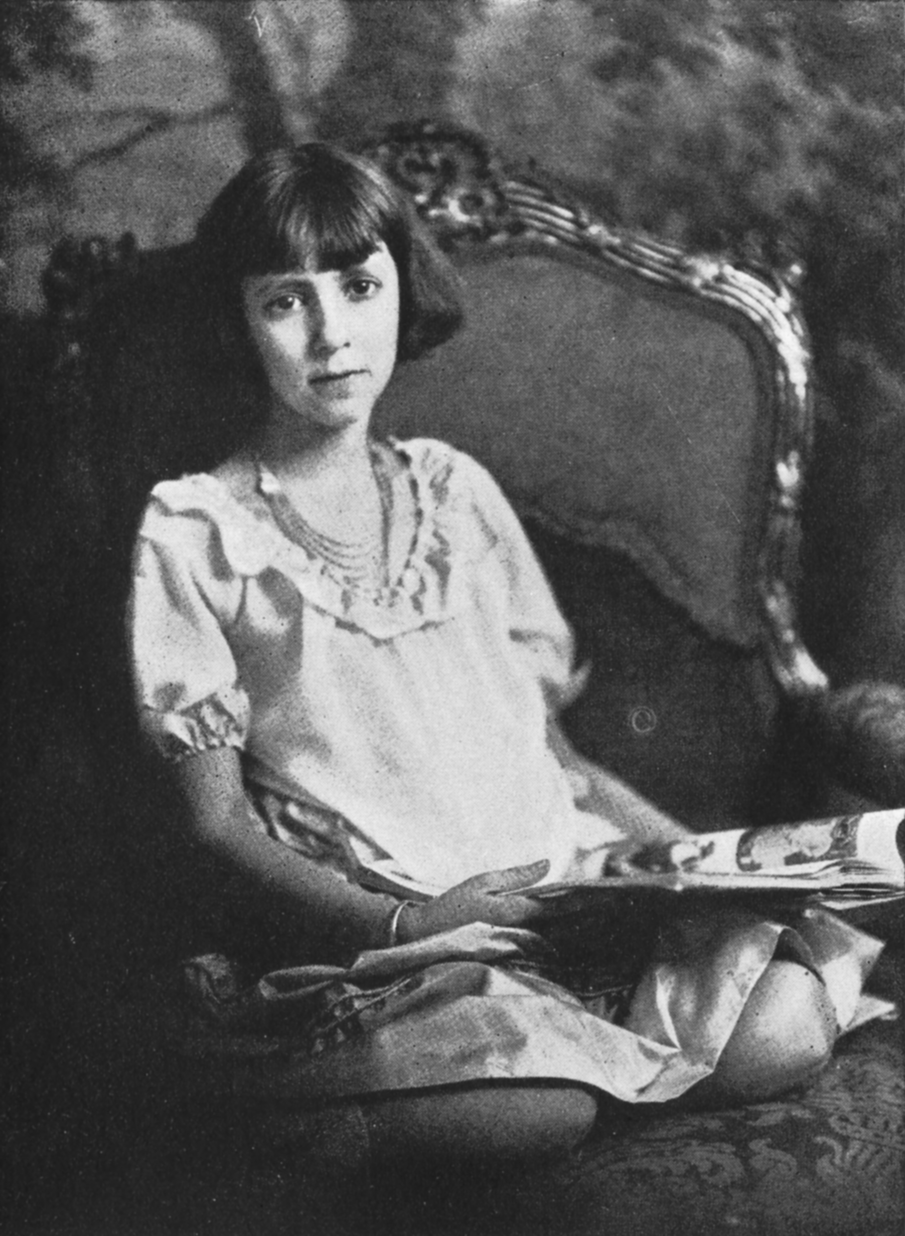 Photograph of Nathalia Crane from 1924